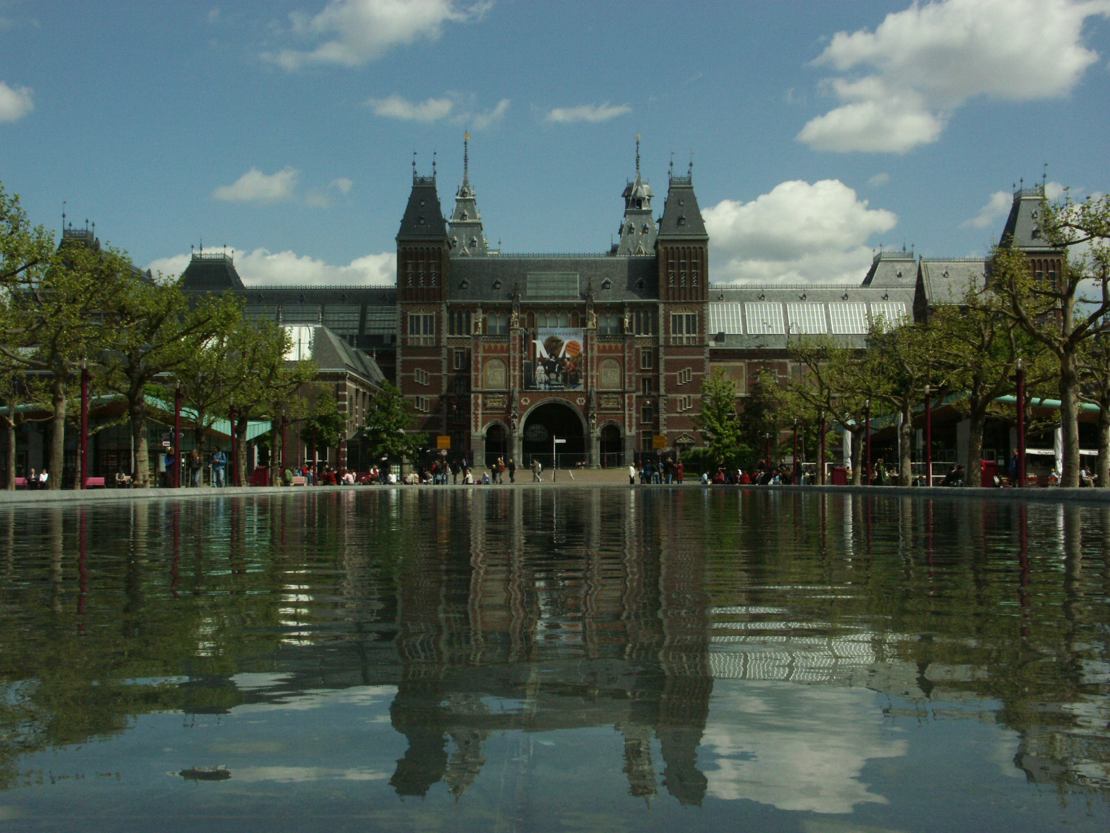 Rijksmuseum, Amsterdam